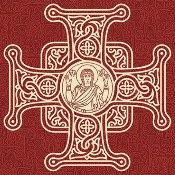 "Work by calligrapher Alexei Chekal dedicated to the holding of the Unification council of the Eastern Orthodox churches of Ukraine on December 15, 2018"[1]